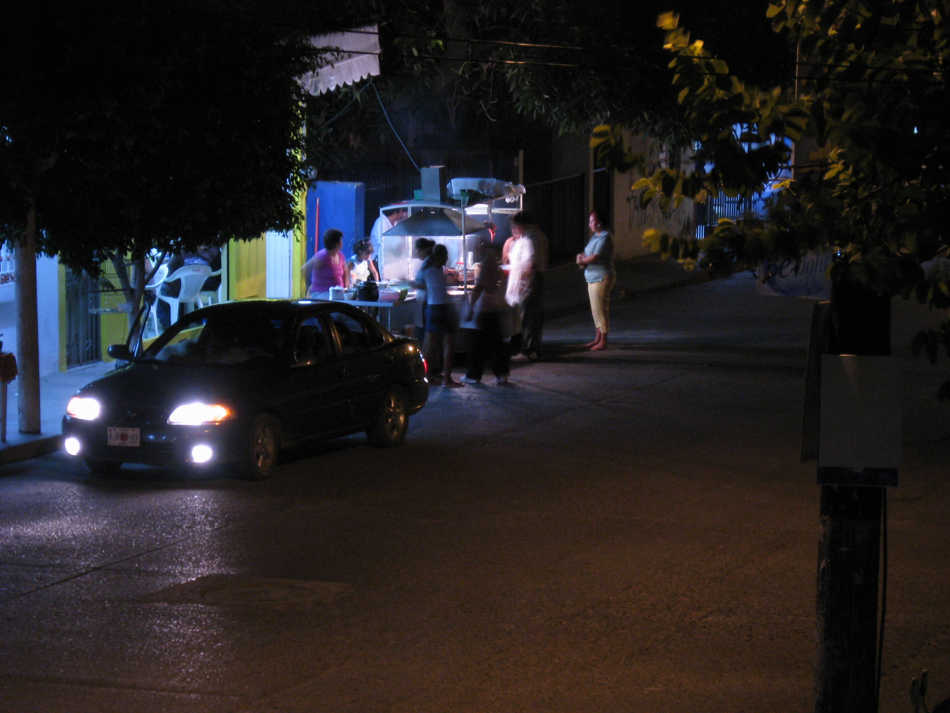 Mazatlán, Sinaloa, Mexico. Traditional Mexican taquería offering best tacos de carne asada